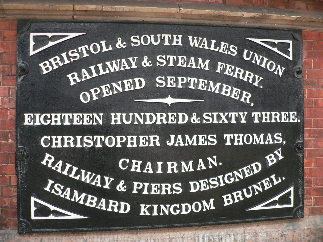 An iron plaque located on the wall of Platform 3 at Bristol Temple Meads station. An adjacent plaque records that it was moved here from its original location - the eastern portal of the Patchway tunnel - in 1986.